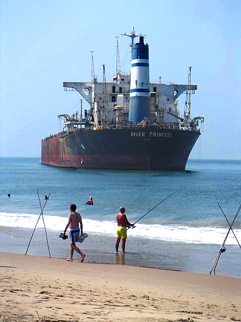 Ore carrier ship River Princess stranded at Calangute Beach, Goa. She grounded in 2000 by an unexpected storm.